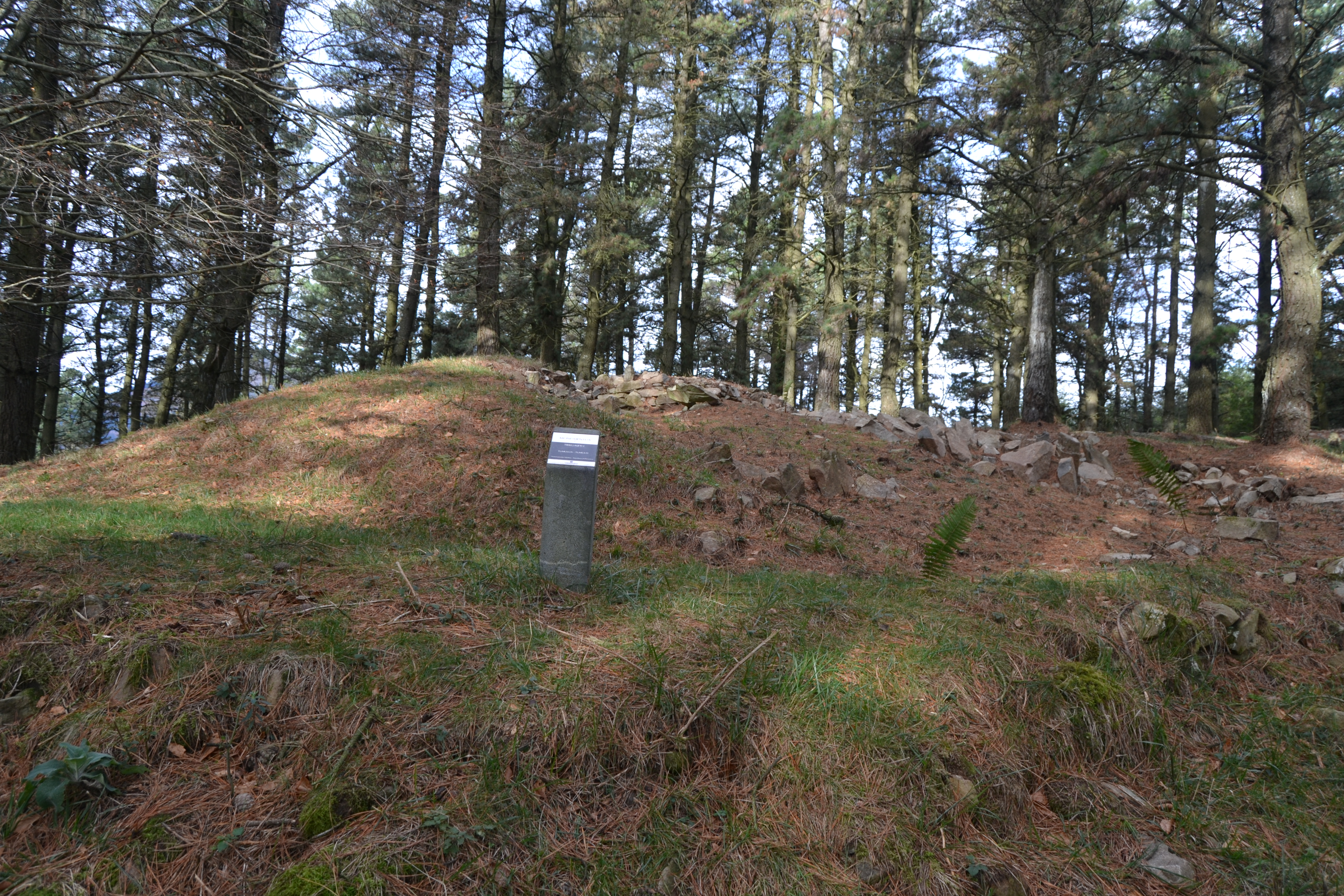 Trikuaizti tumulus I, Astigarreta, Beasain, Gipuzkoa, Basque Country